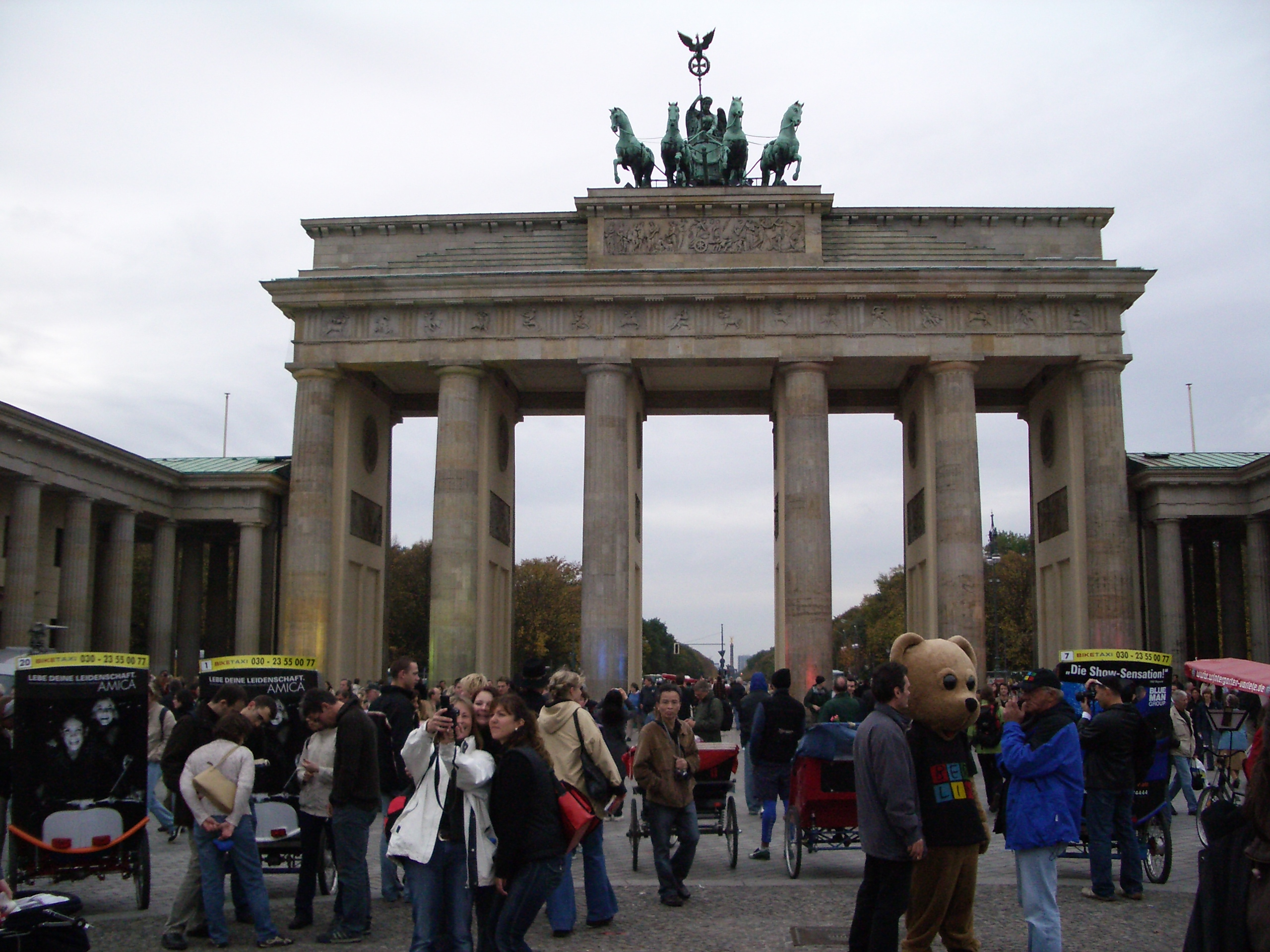 The Brandenburger Tor in Berlin, Germany.